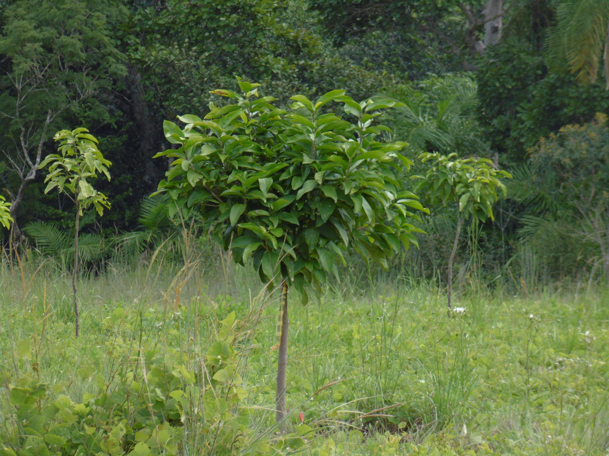 Puerto Gaitan meta